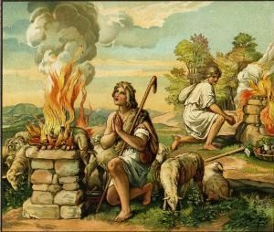 Sacrifice of Cain and Abel